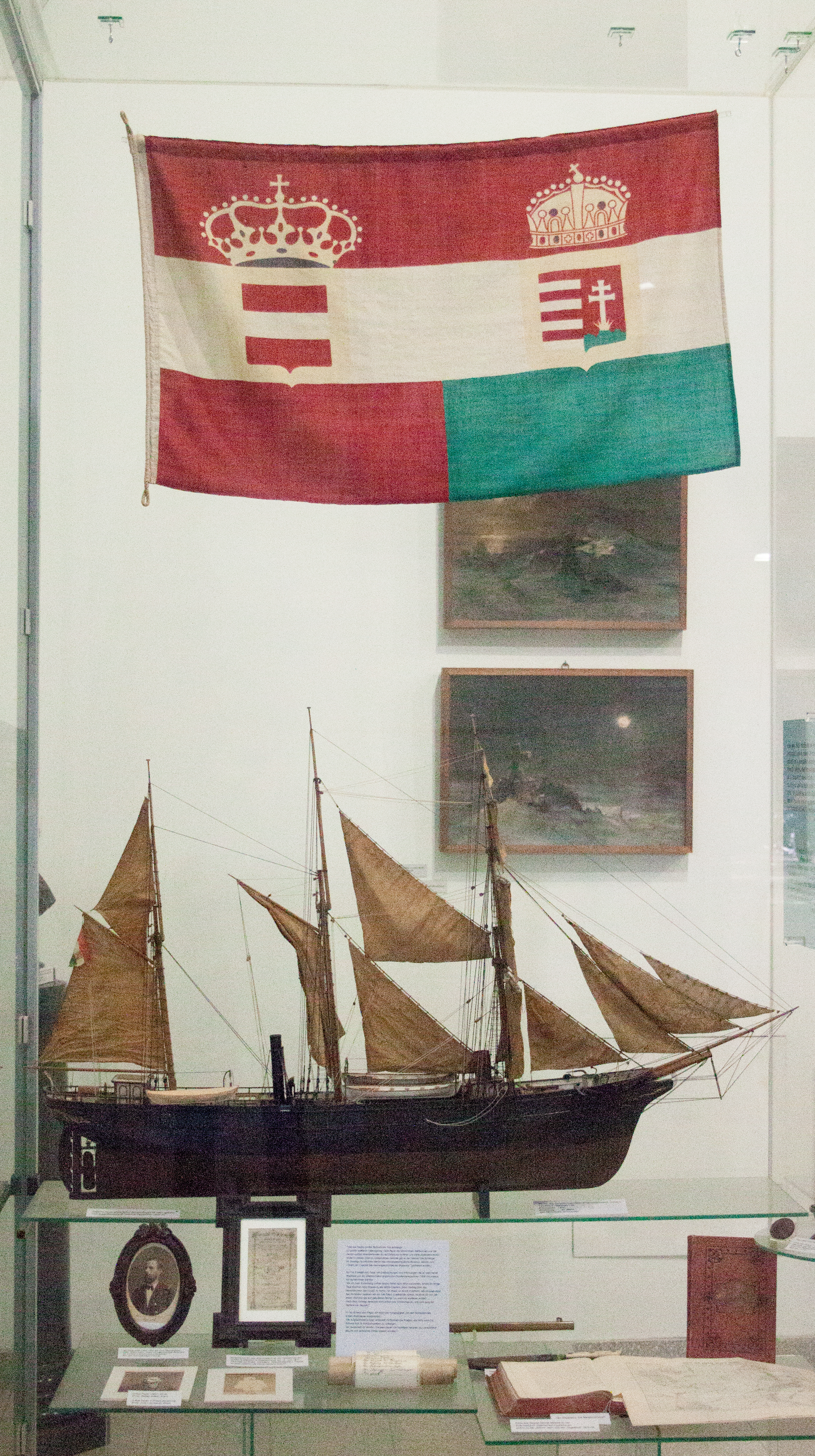 Showcase of the Austro-Hungarian North Pole Expedition, Heeresgeschichtliches Museum Wien.